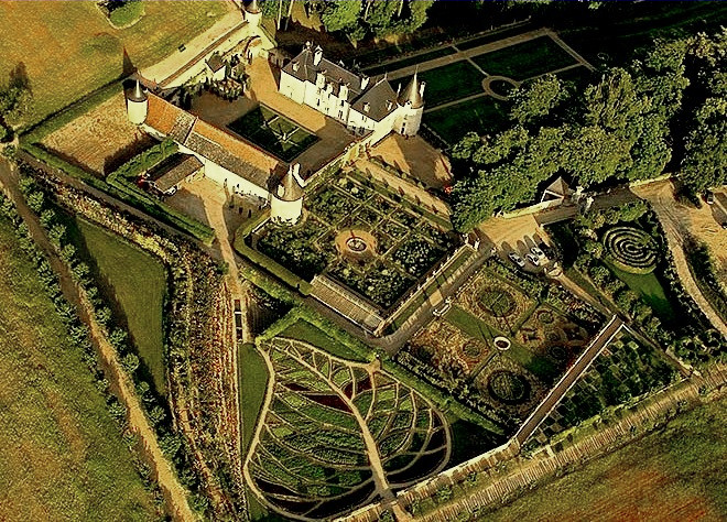 arial view of the Gardens of la Chatonniere